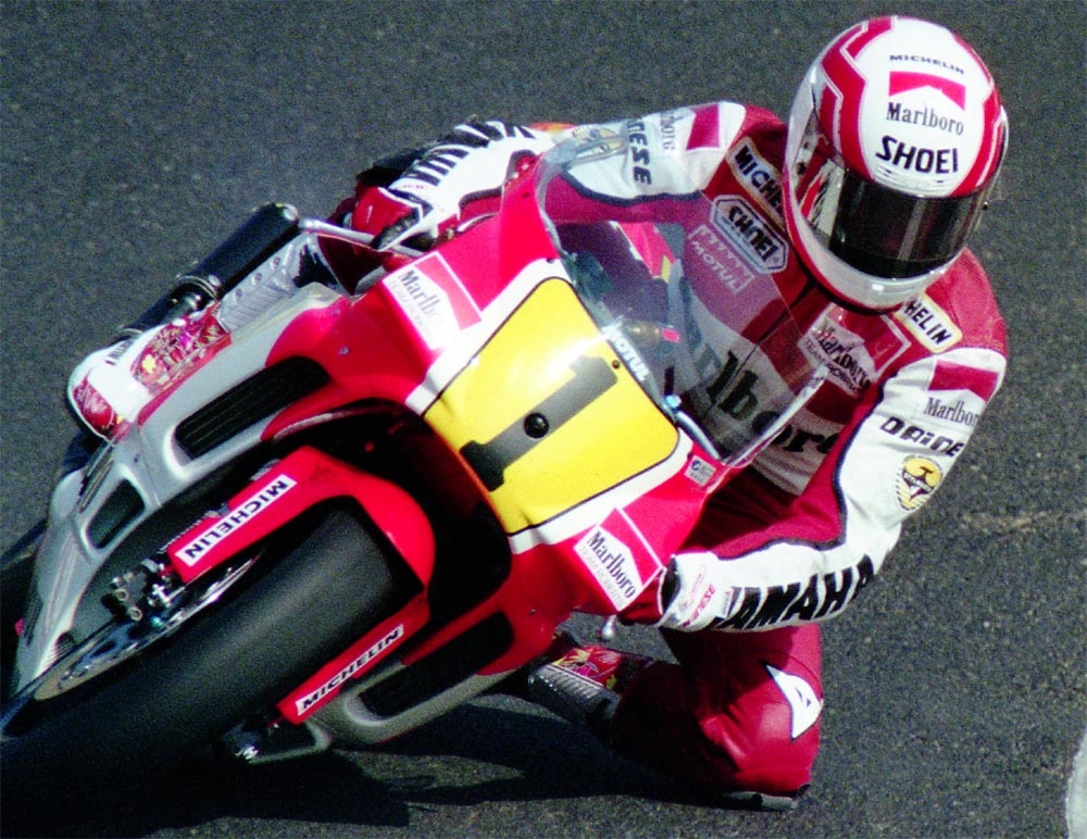 Eddie Lawson, in Japanse Grand Prix 1990